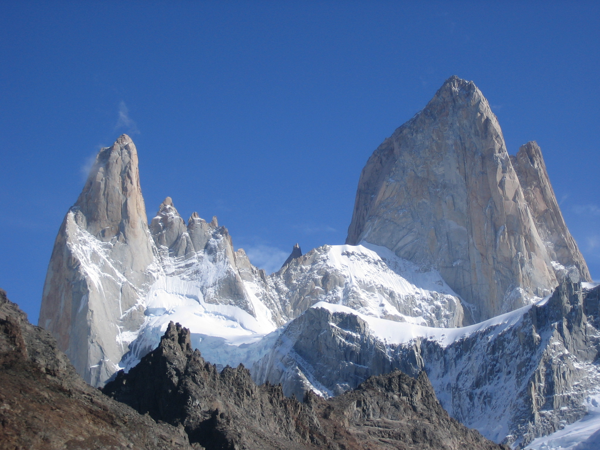 Cerro Chaltén, also known as Cerro Fitzroy, a mountain located in Patagonia on the border between Argentina and Chile.